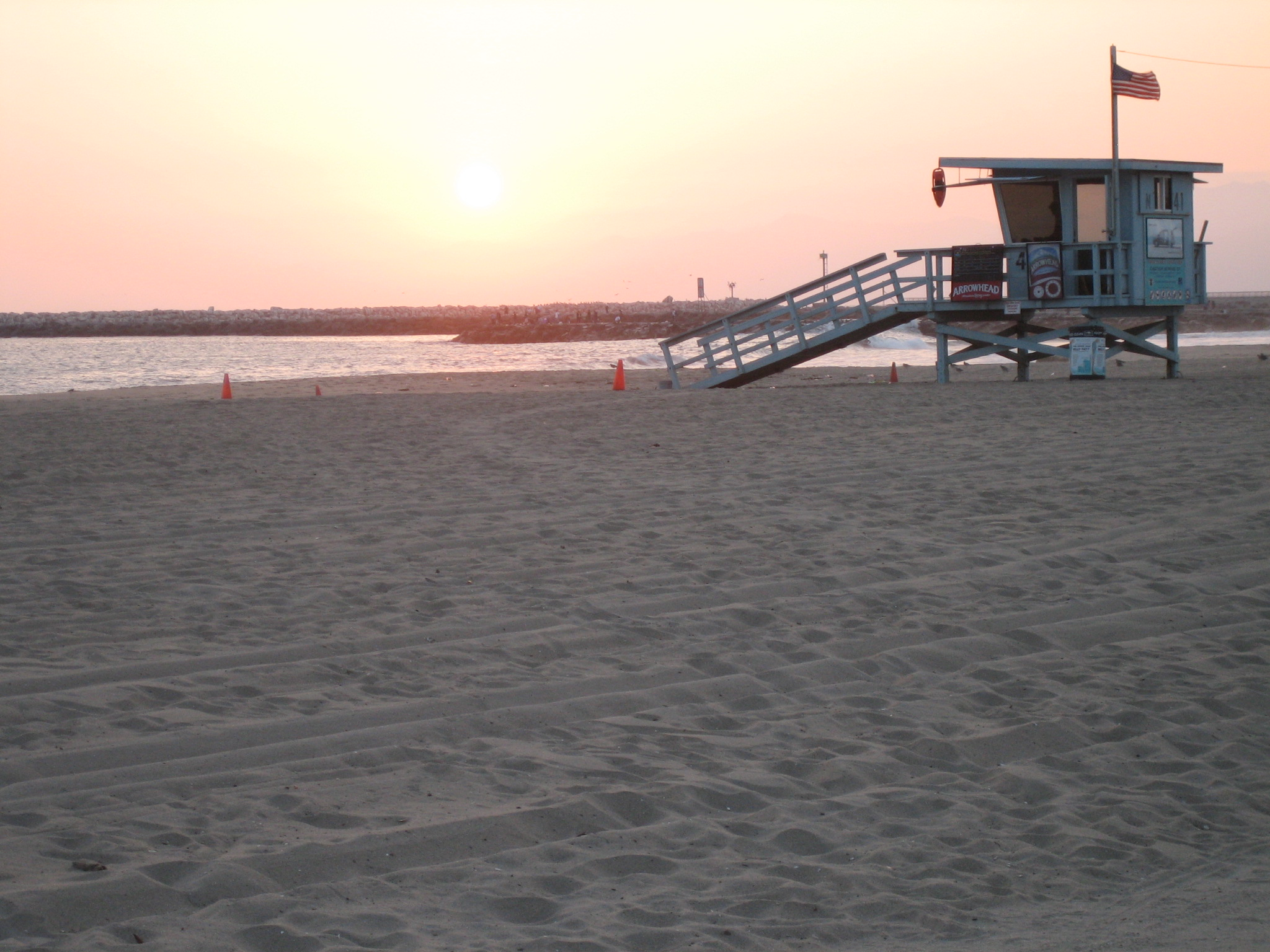 Lifeguard tower in Venice Beach, L.A.